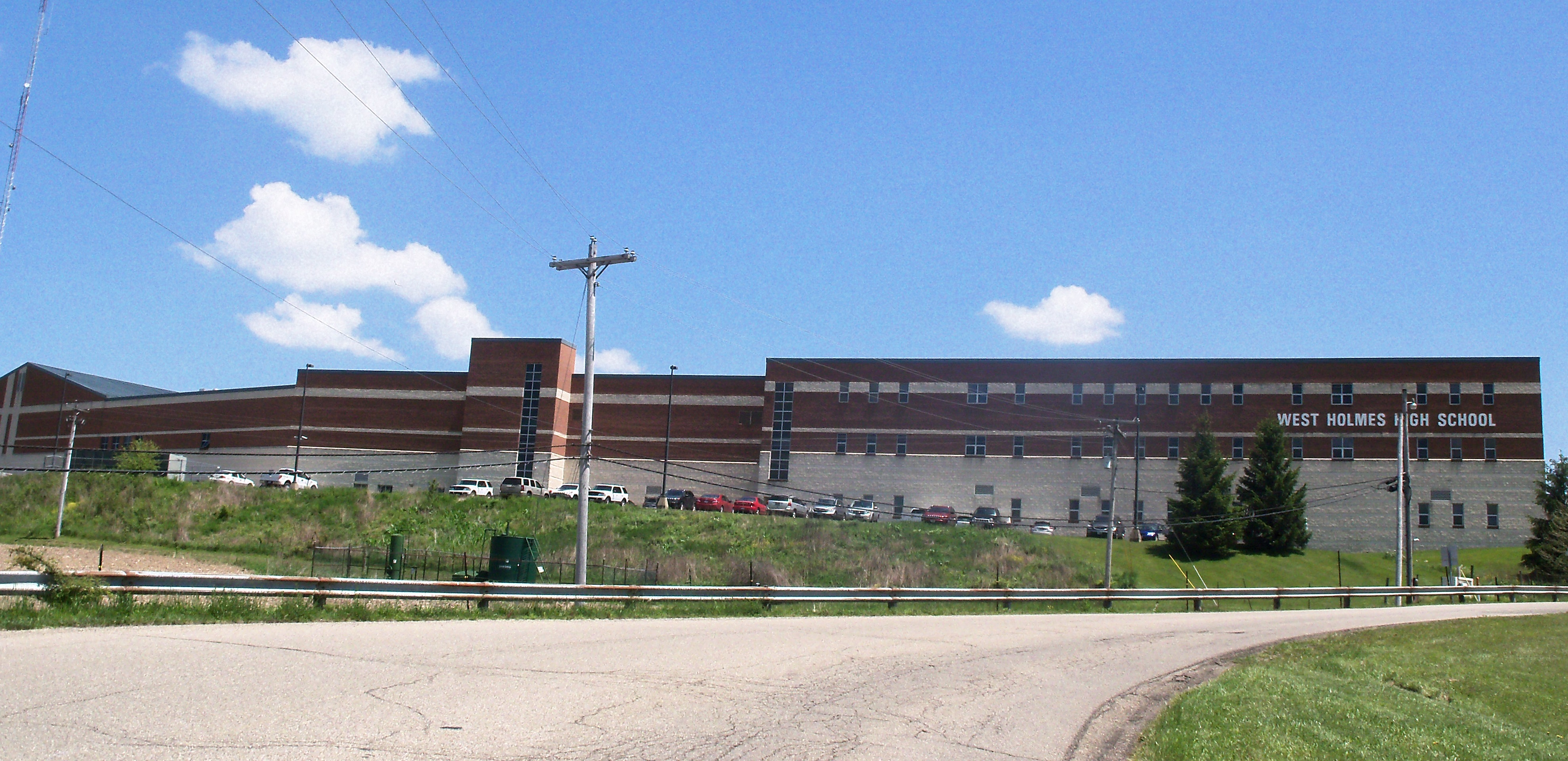 West Holmes High School near Millersburg, Ohio